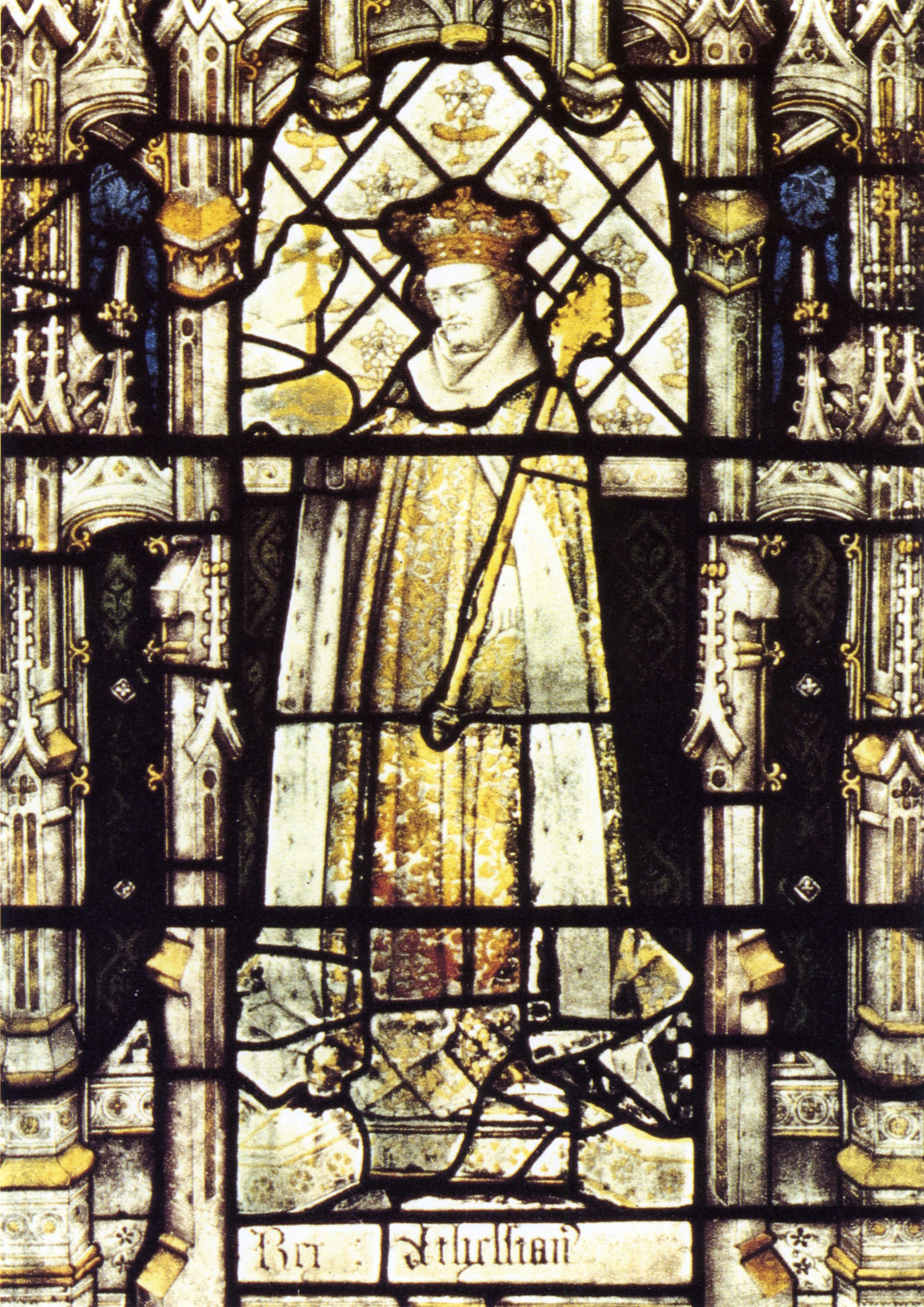 This image is a JPEG version of the original PNG image at File: Athelstan from All Souls College Chapel.png. Generally, this JPEG version should be used when displaying the file from Commons, in order to reduce the file size of thumbnail images. However, any edits to the image should be based on the original PNG version in order to prevent generation loss, and both versions should be updated. Do not make edits based on this version. See here for more information. Athelstan, c.895-939. Stained glass window, All Souls College Chapel, Oxford. Originally obtained from Warden and Fellows of All Souls, Oxford. According to [1], "The large stained glass window [containing this image] in the west wall is known as the Royal Window. Dating from the mid-15th-century but much restored, it was originally located in the Old Library of All Souls."